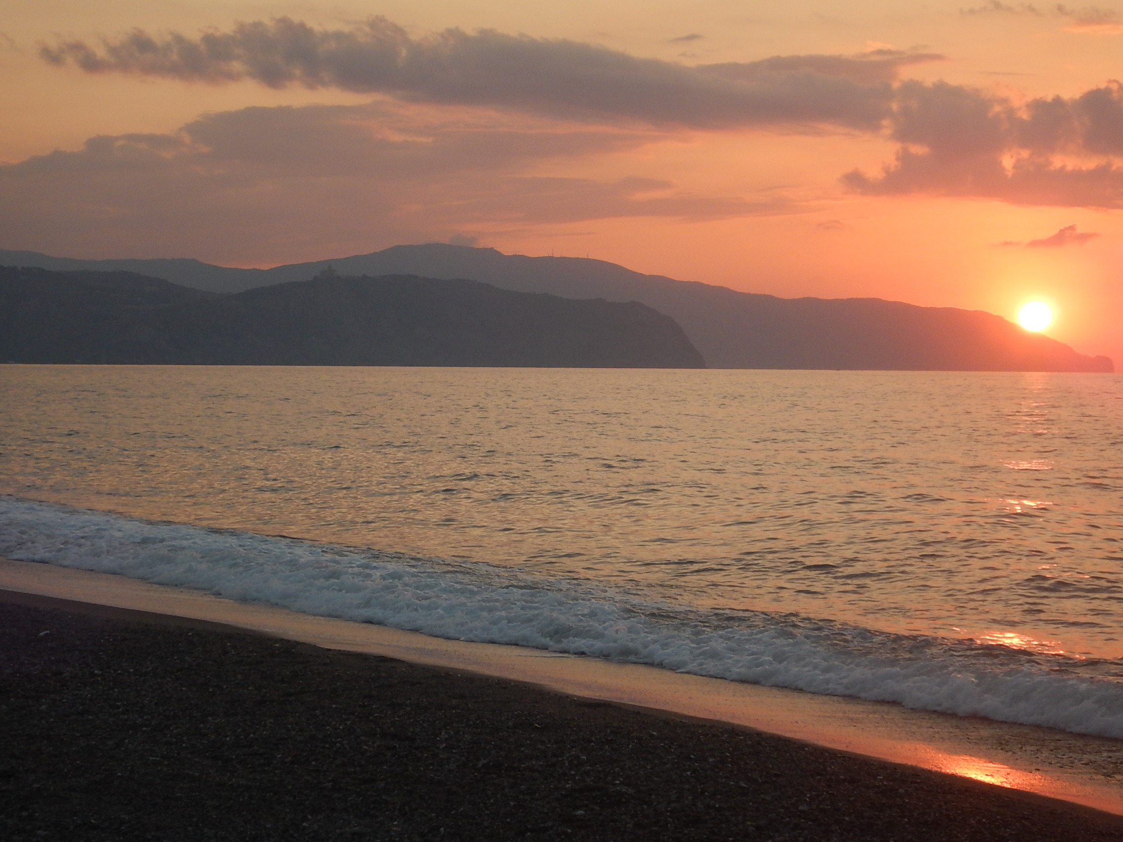 Sunset at Marchesana beach behind Tindari cape and Calavà Cape at Terme Vigliatore, Sicily